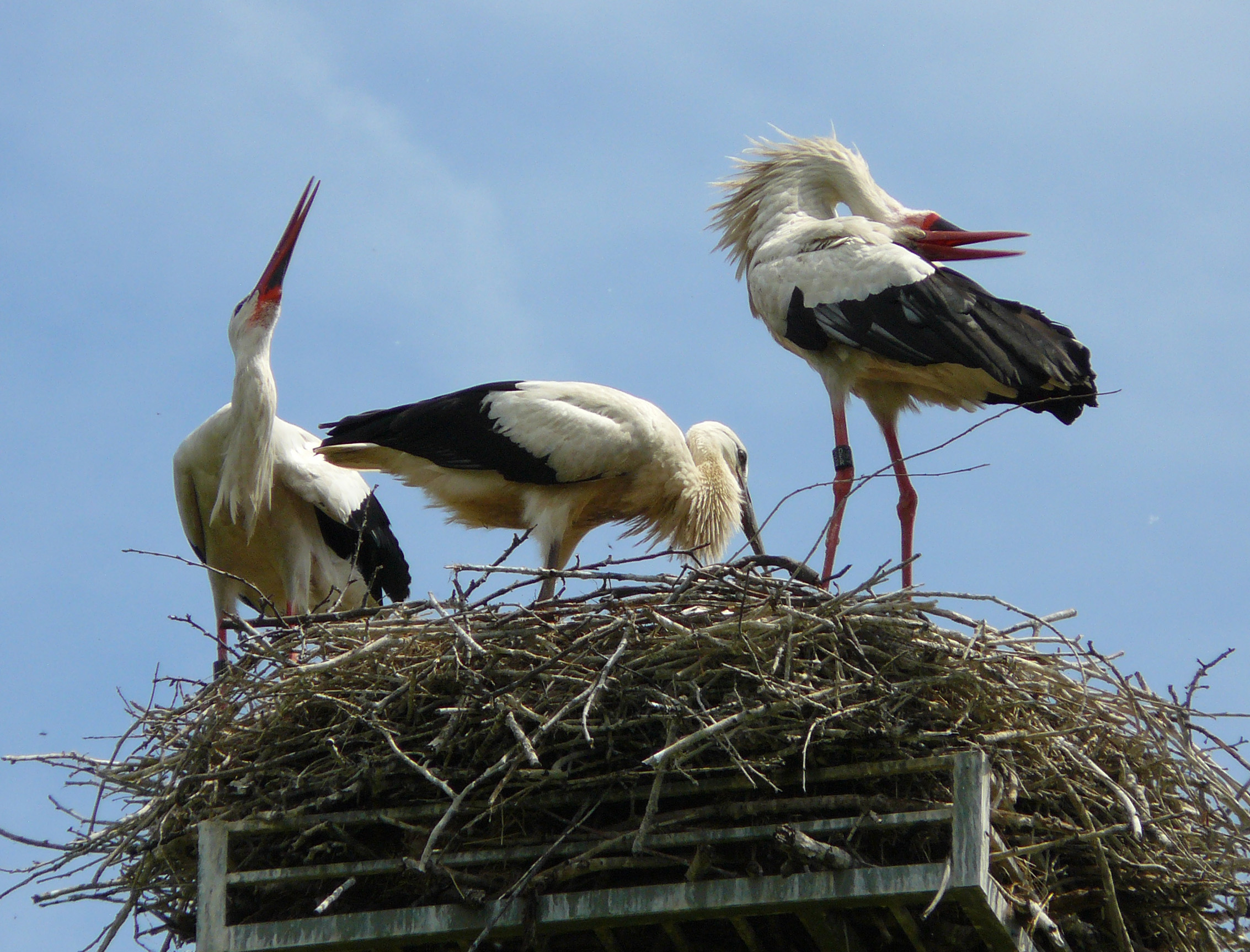 White Stork - welcoming the newly arrived